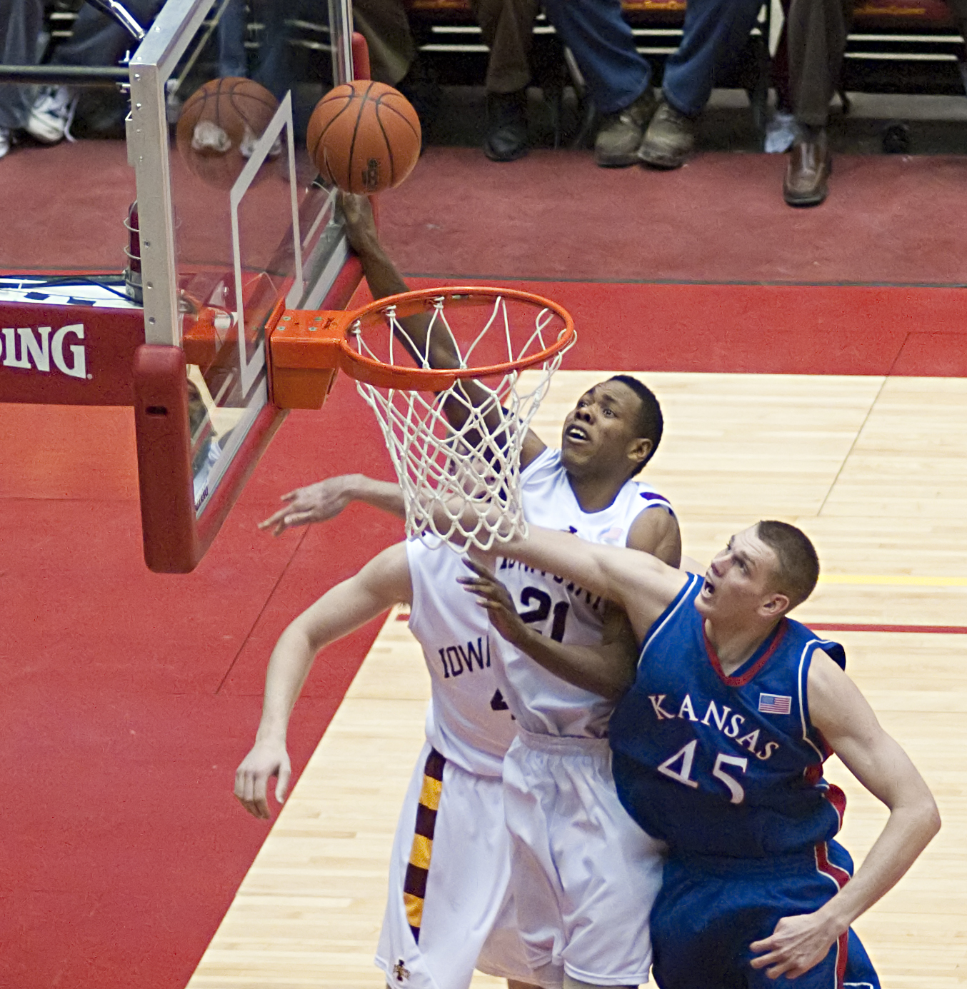 Iowa State Cyclones Power Forward Craig Brackens goes for a layup in a game against the Kansas Jayhawks.